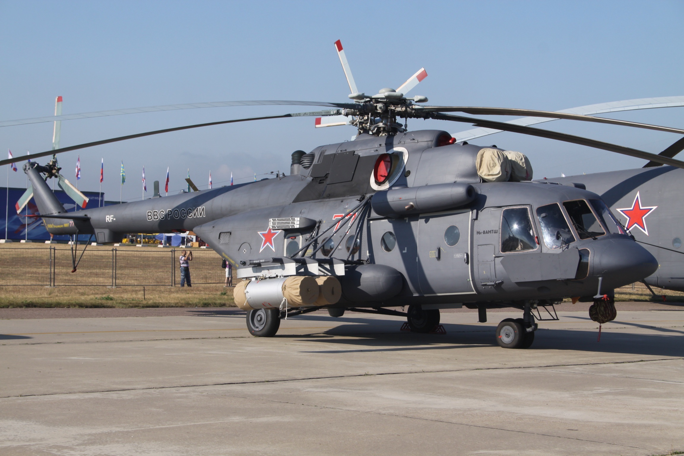 At Moscow Zhukovsky